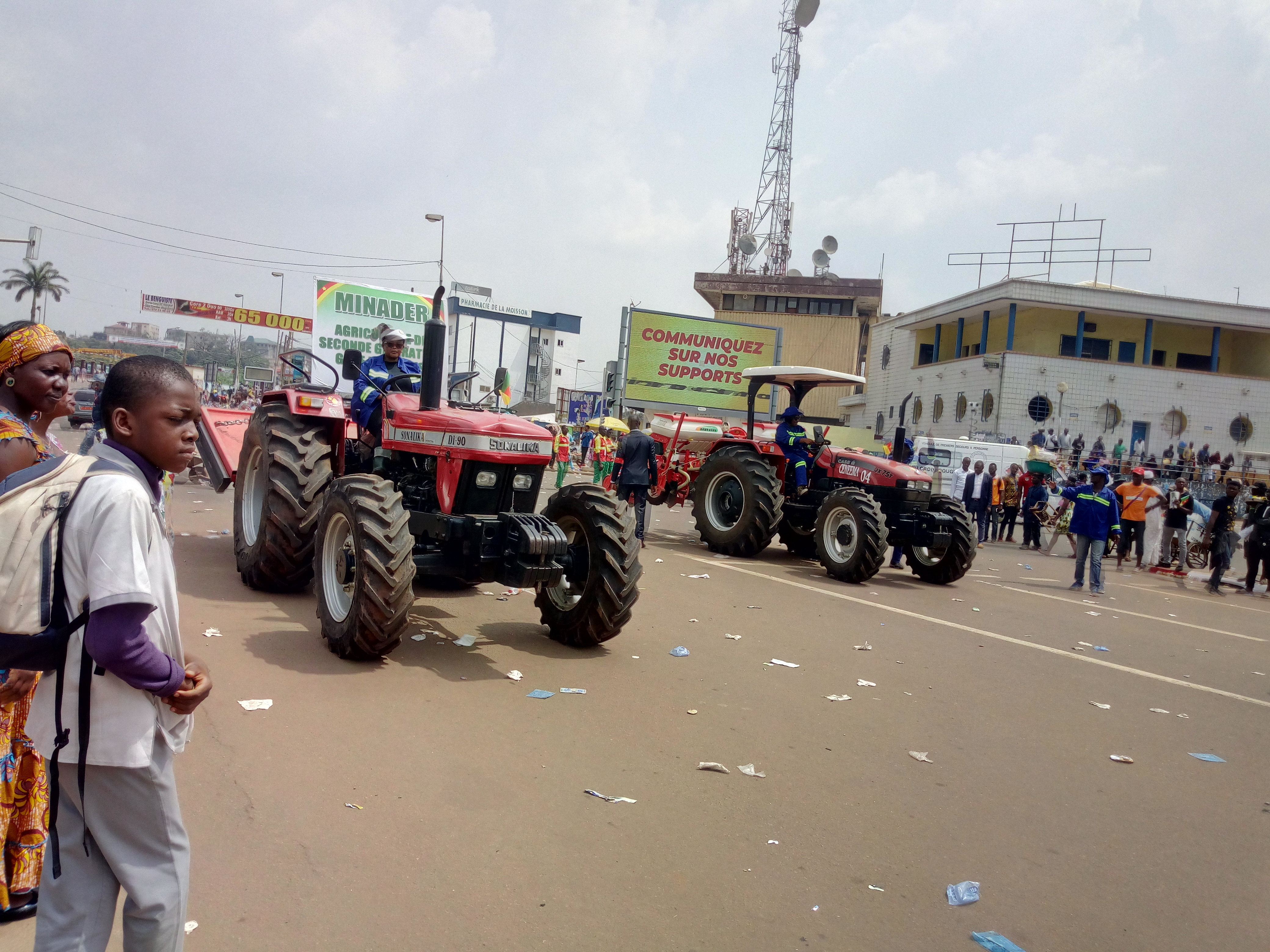 International women's day celebration This is an image with the theme "Play" from: Cameroon